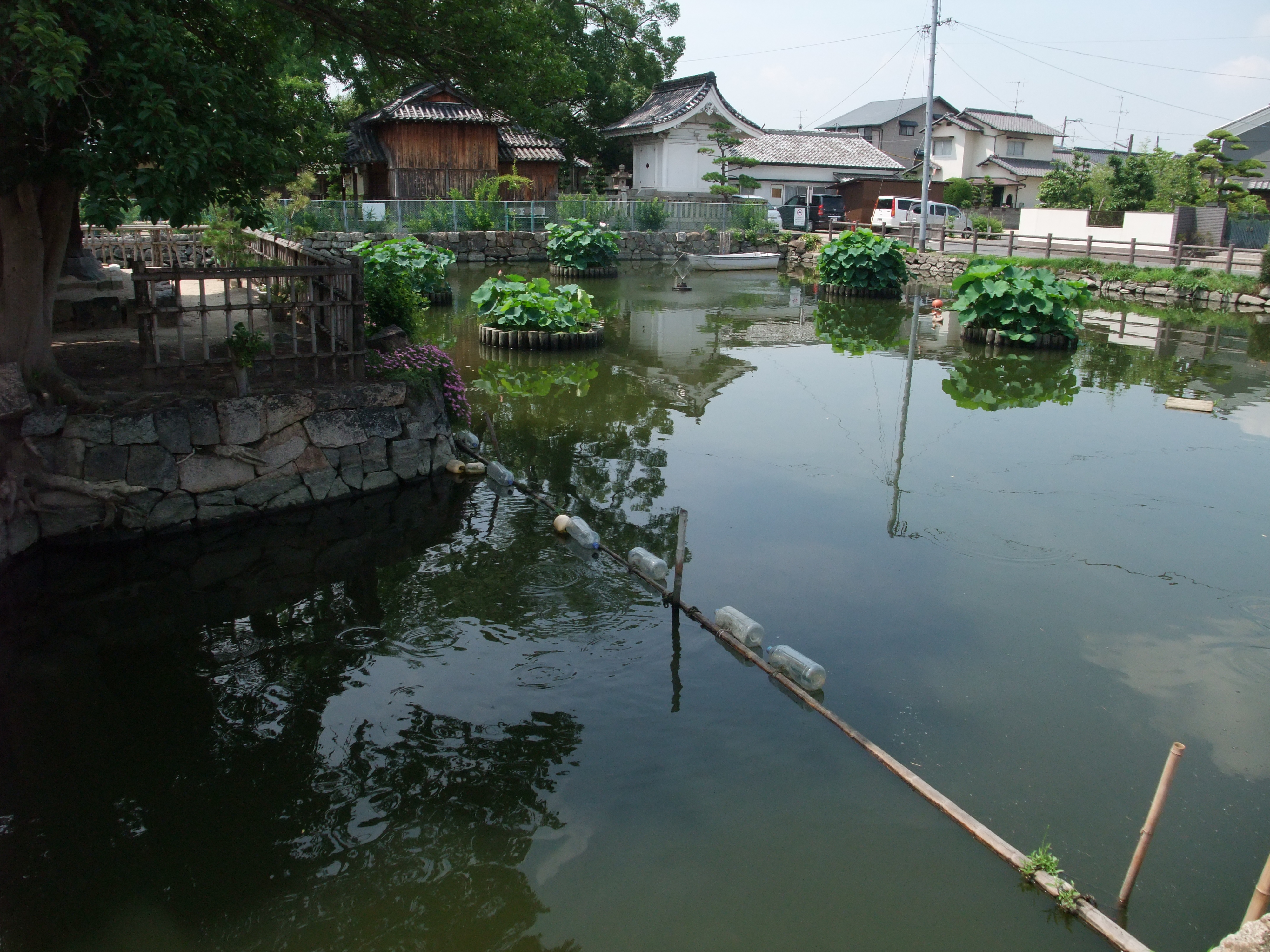 Remains of Niwase castle and moat